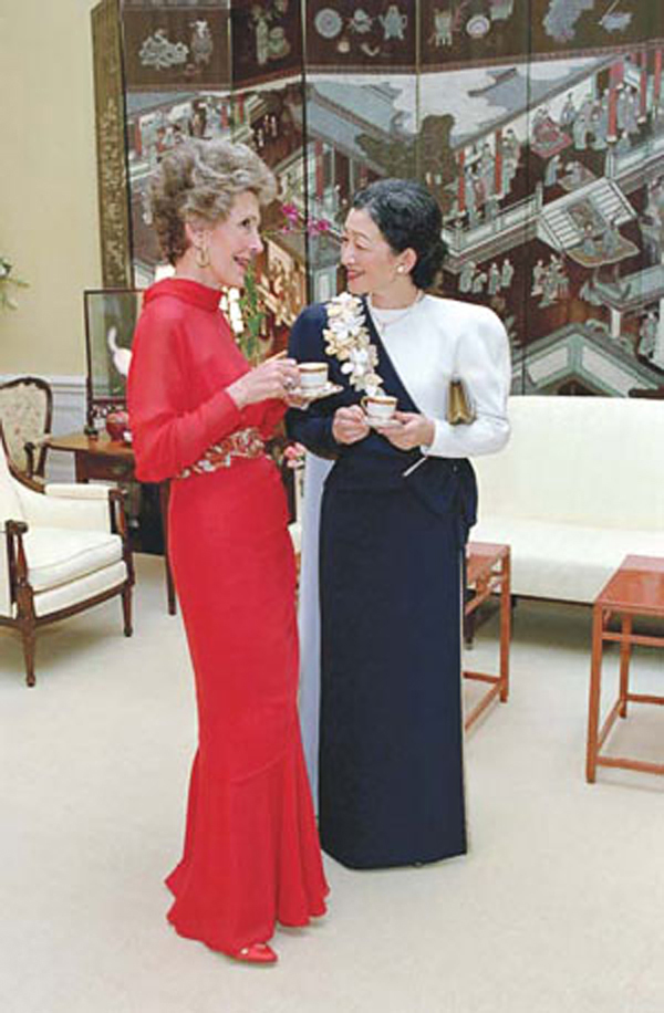 First Lady Nancy Reagan, dressed in Valentino, with Japan's Crown Princess Michiko.